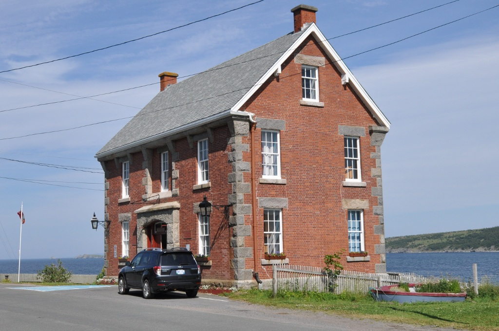 Harbour Grace Registered Heritage District; local historic society museum.